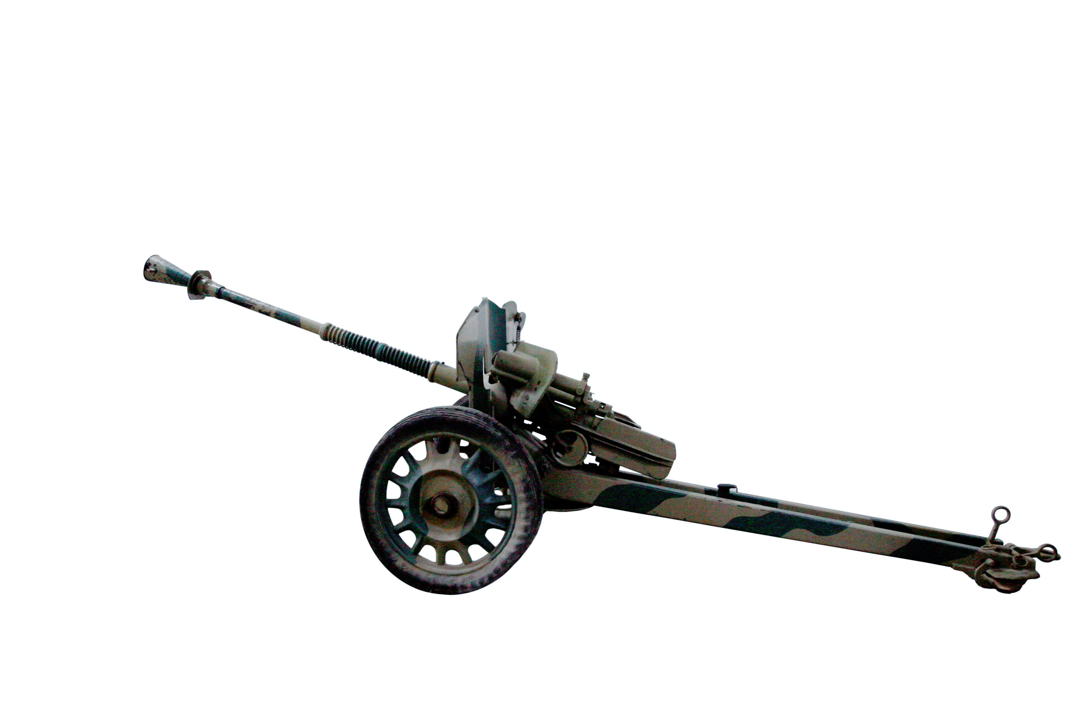 APX SAL 37, 35mm anti-tank gun introduced in French service in 1938. On display at Saumur Général Estienne museum.